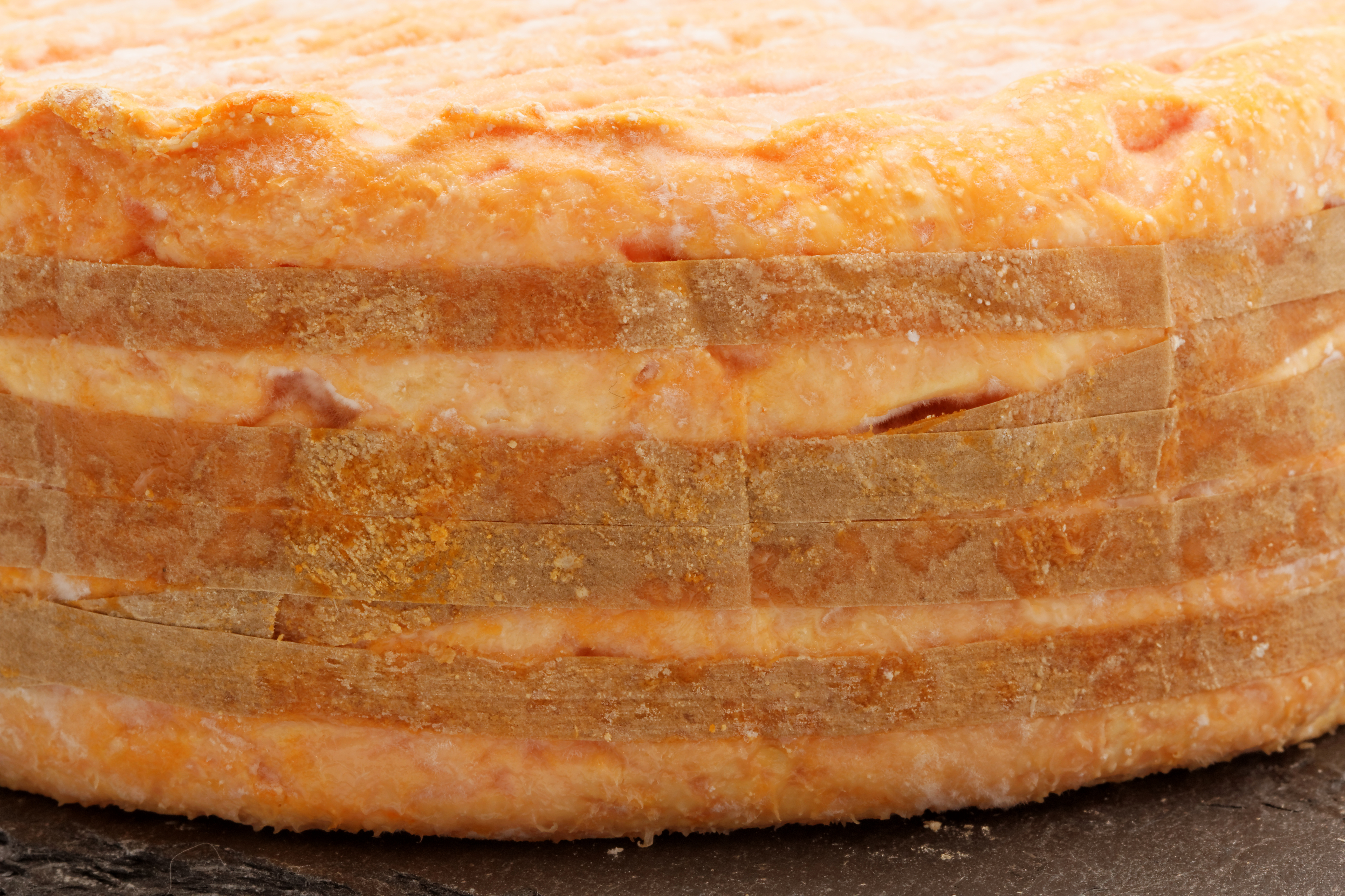 Livarot (cow's milk cheese)